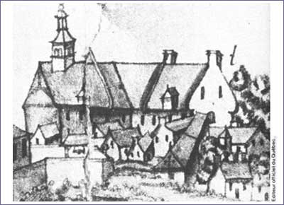 Quebec City in 1688. From the Quebec Official Publisher.